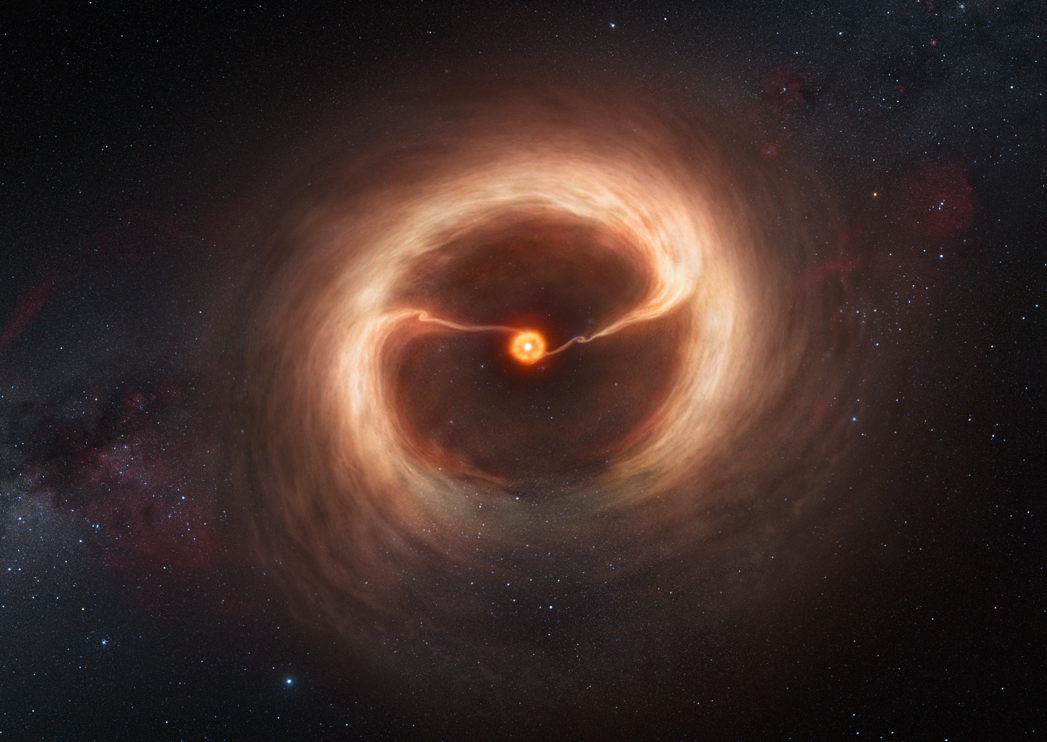 This artist’s impression shows the disc of gas and cosmic dust around the young star HD 142527. Astronomers using the Atacama Large Millimeter/submillimeter Array (ALMA) telescope have seen vast streams of gas flowing across the gap in the disc. These are the first direct observations of these streams, which are expected to be created by giant planets guzzling gas as they grow, and which are a key stage in the birth of giant planets.